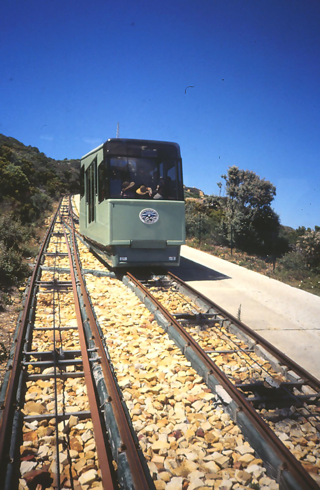 The "Flying Dutchman Funicular" at the Cape Point in South Africa. February 21, 1997.